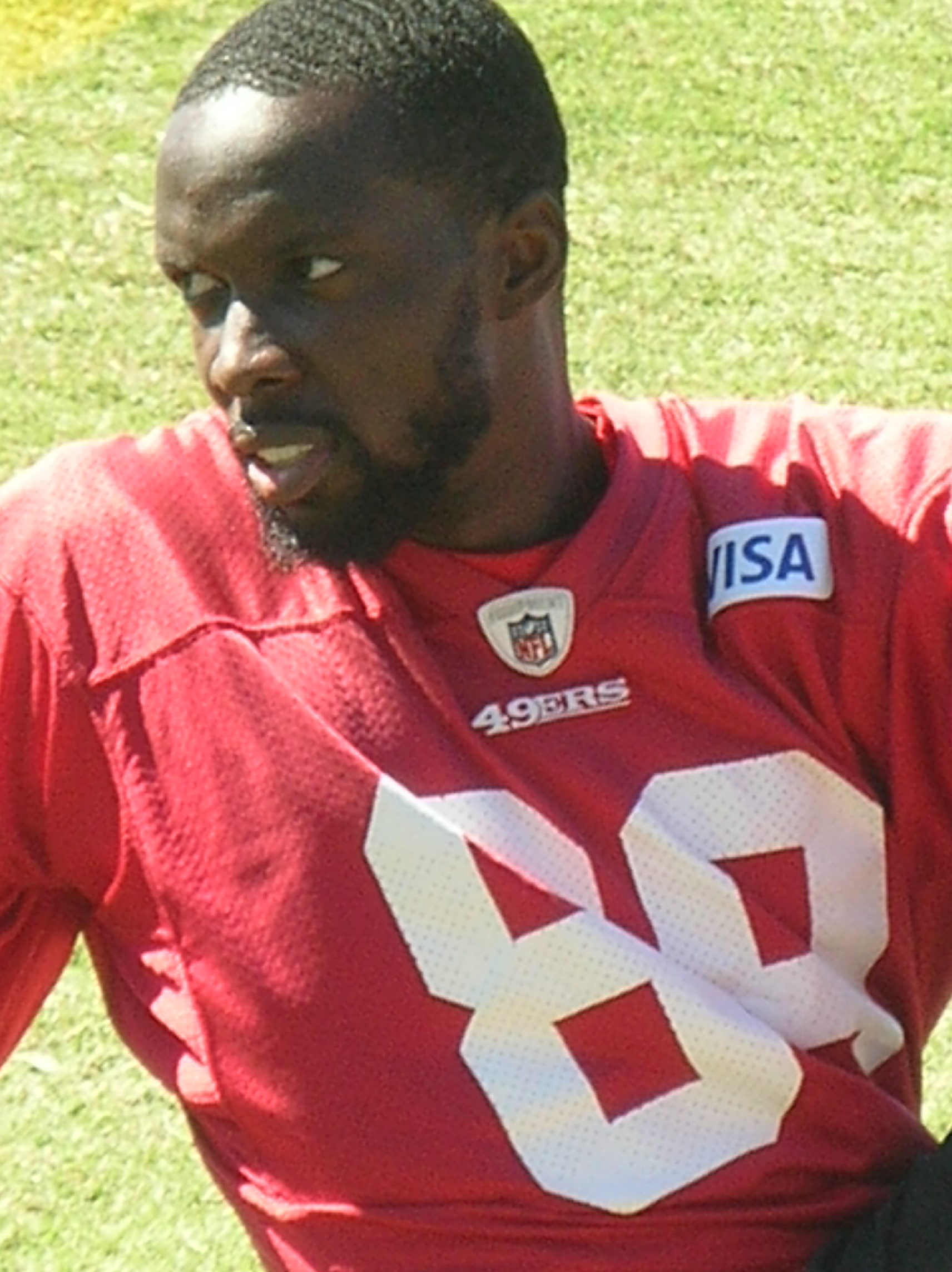 San Francisco 49ers wide receiver Jason Hill at training camp in Santa Clara, California.